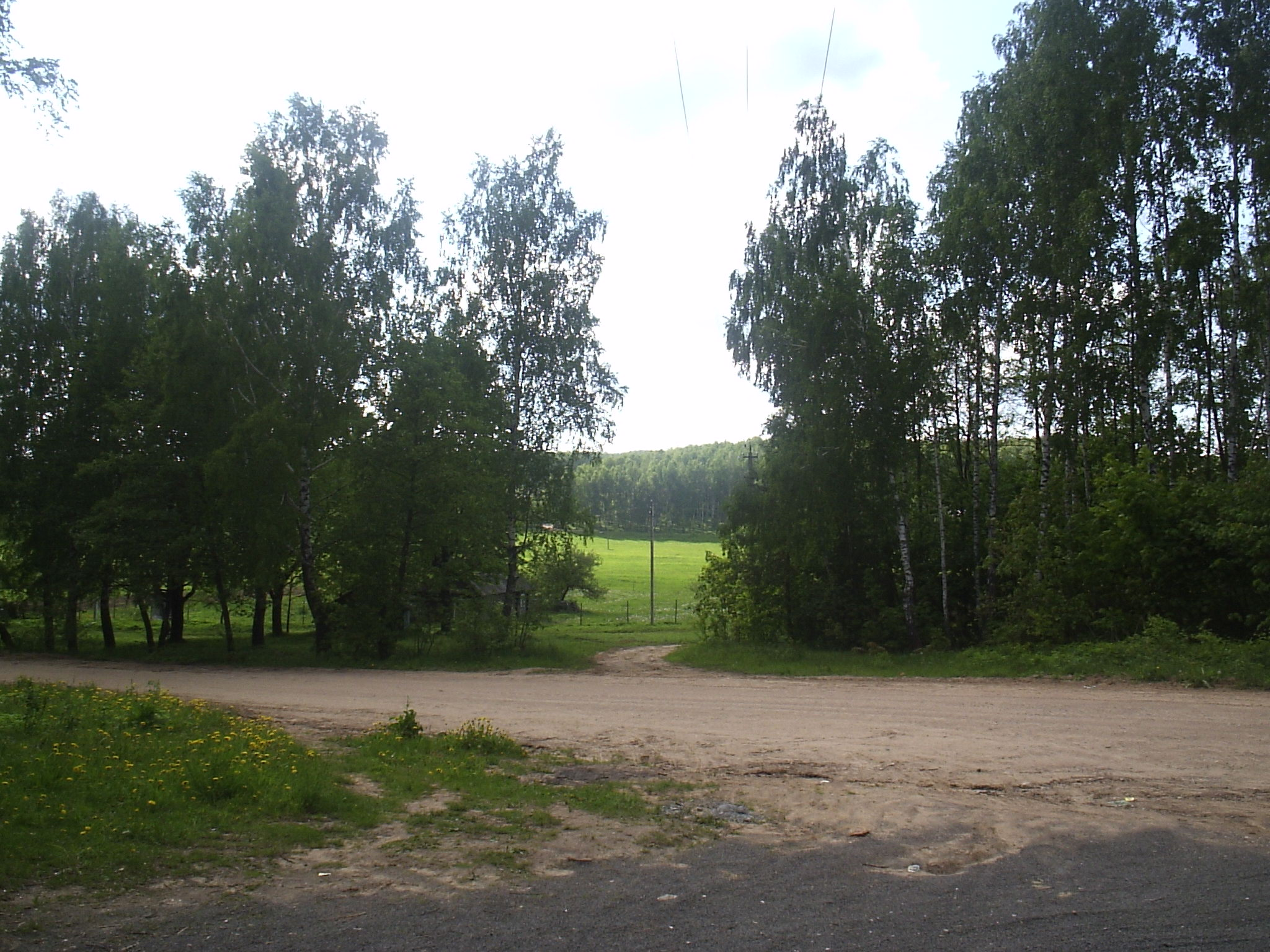 village Padhorje (road from village Ratamka)